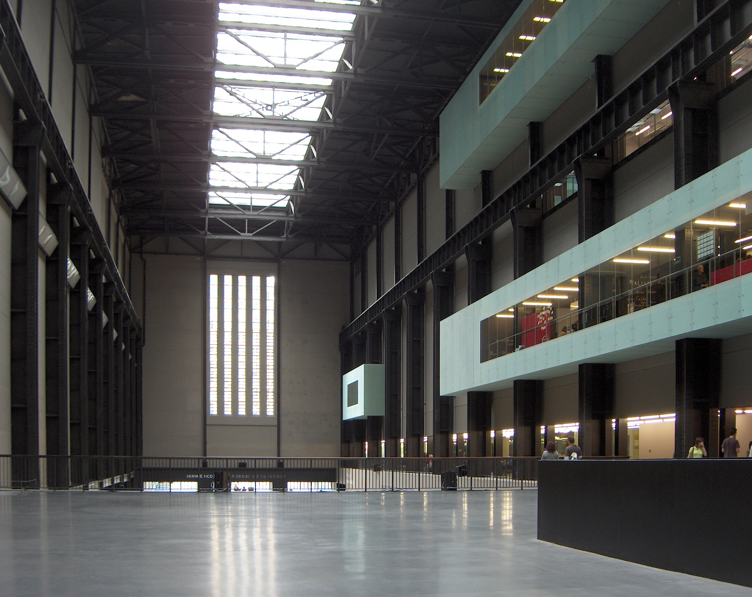 Turbine Hall of the Tate Modern, in London.